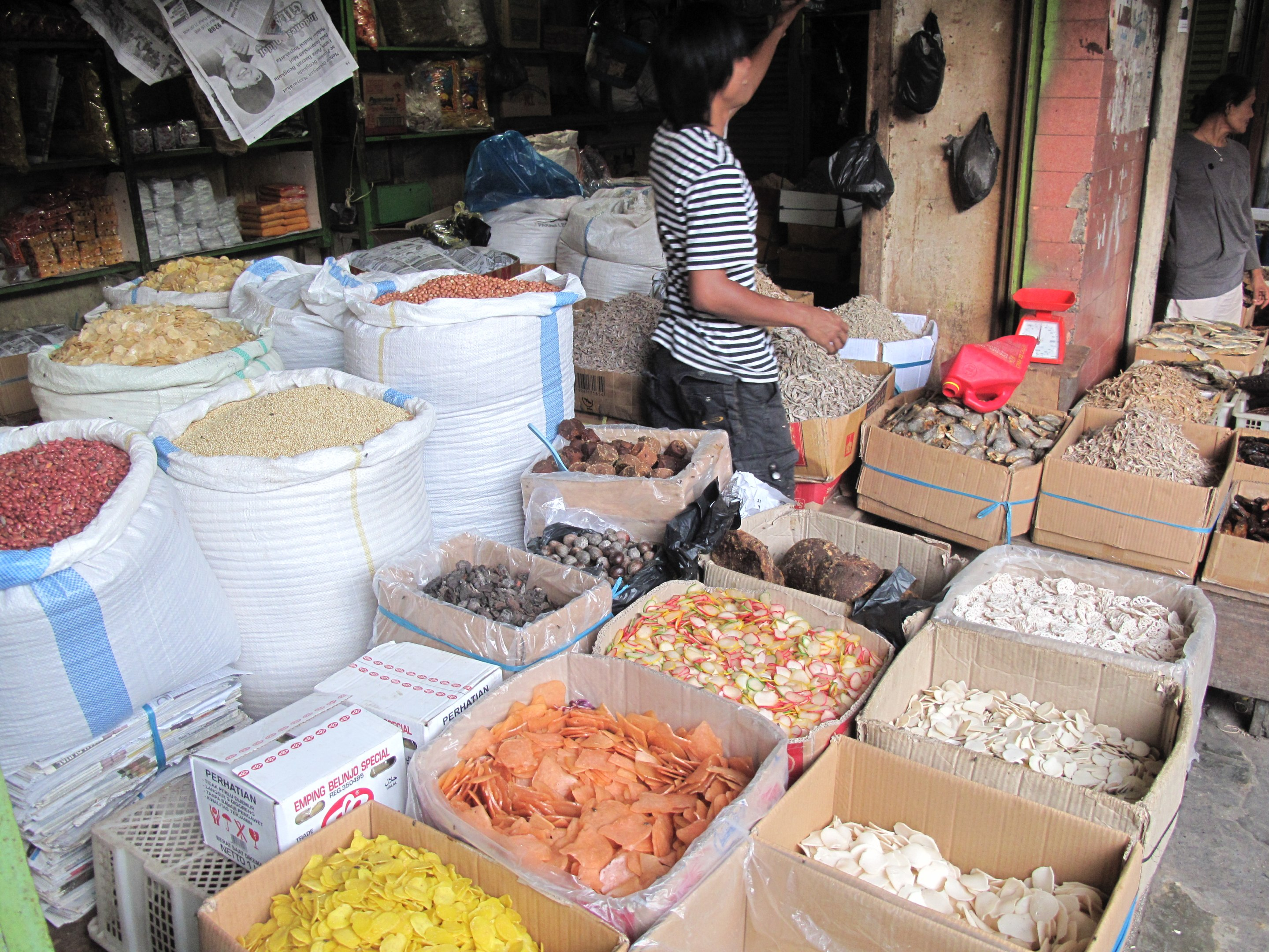 Market in Curup, Bengkulu, Indonesia.